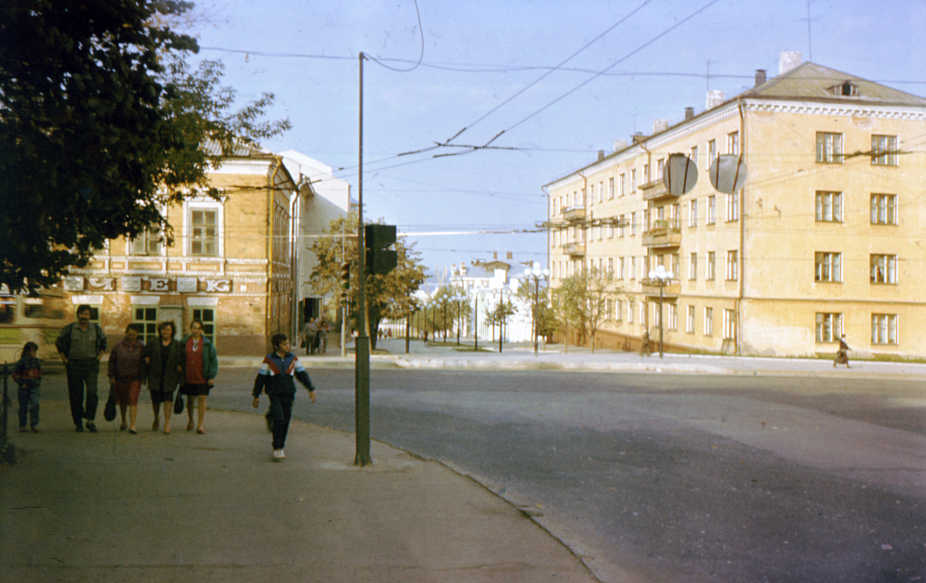 Cheboksary. Karl Marx & Volodarsky Streets crossing. About 1995.